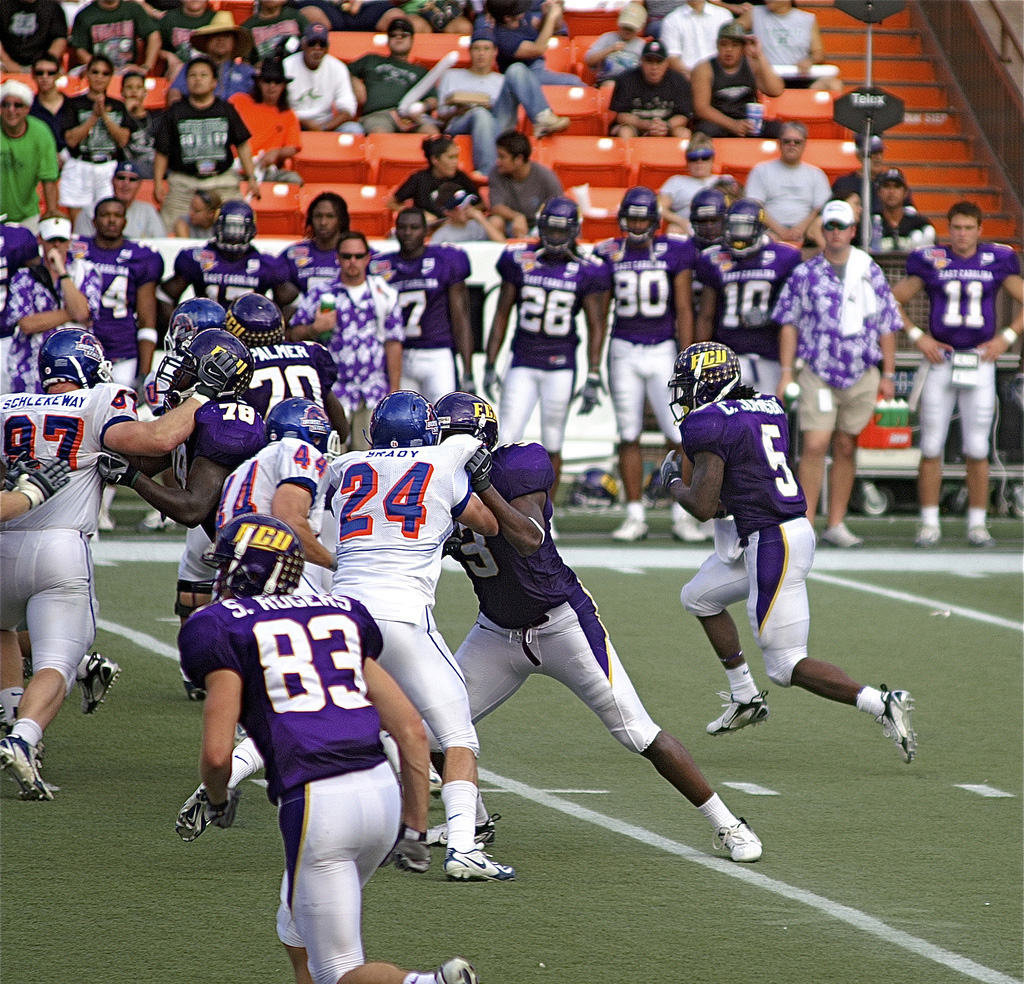 Boise State University vs East Carolina University - Chris Johnson